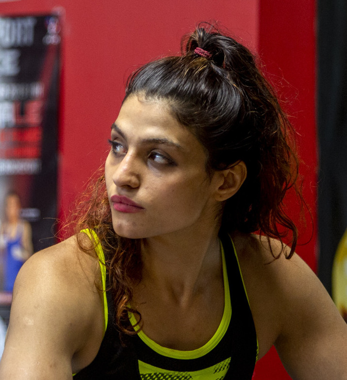 Sadaf Khadem, female boxer from Iran. Date work and License: See below.